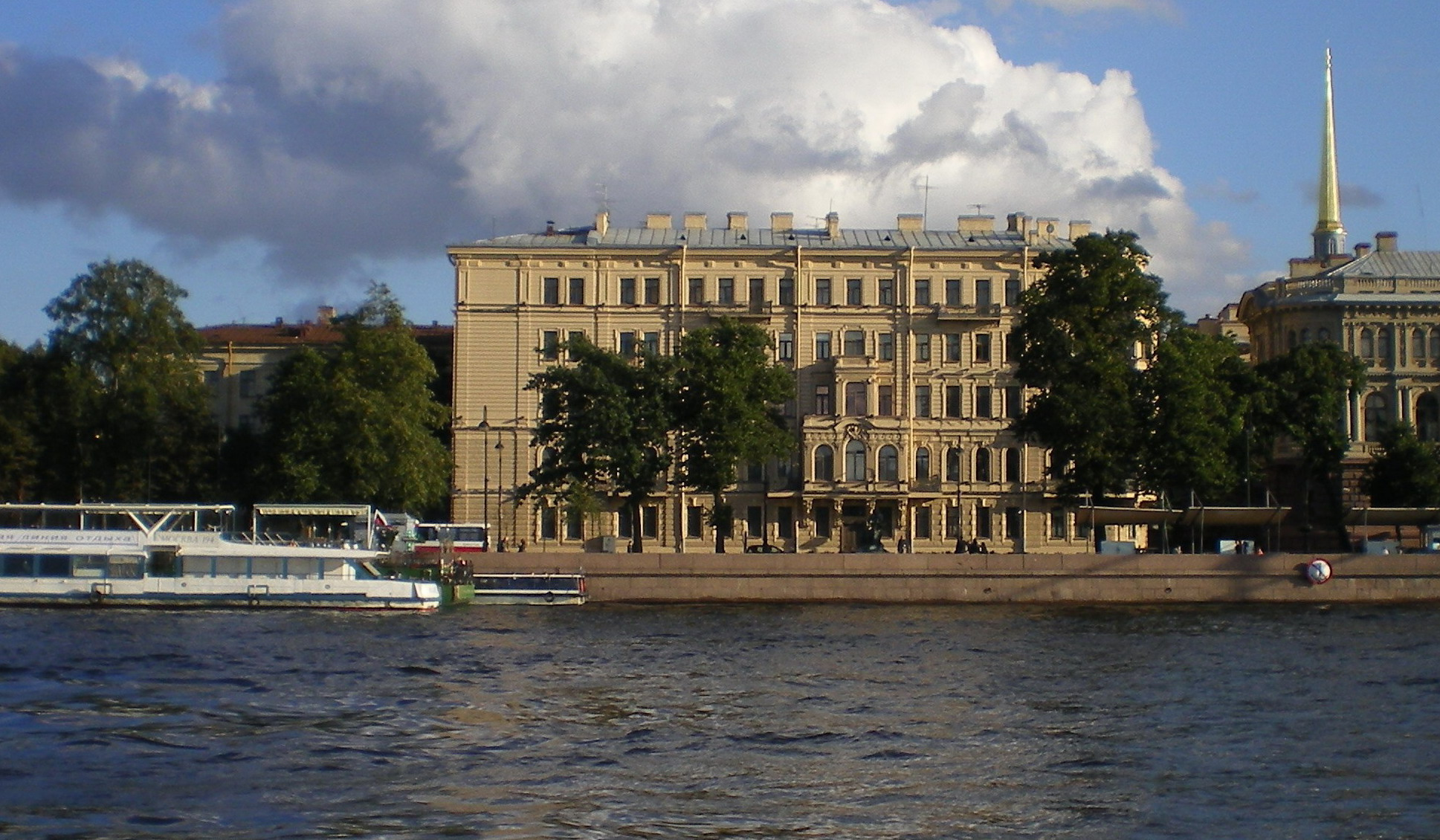 Admiralty Embankment in Saint Petersburg